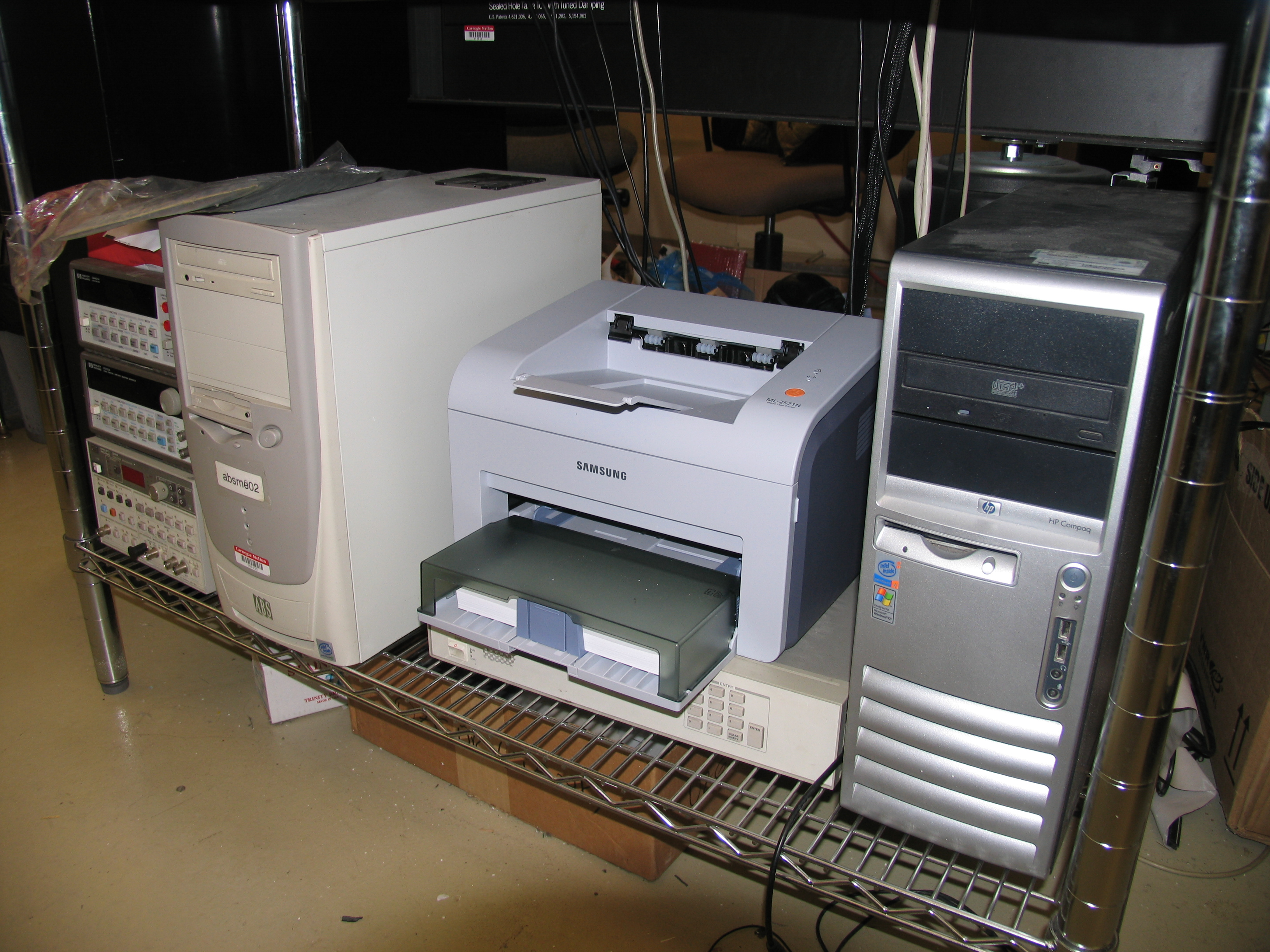 Samsung printer ML-2571N and HP Compaq